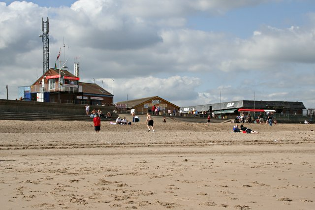 Ingoldmells Beach.